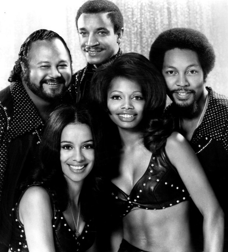 Publicity photo of The 5th Dimension.